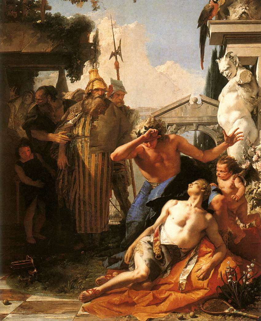 The Death of Hyacinth by Giovanni Battista Tiepolo in 1752 - Oil on Canvas. It is in the Thyssen-Bornemisza Collection, Madrid.